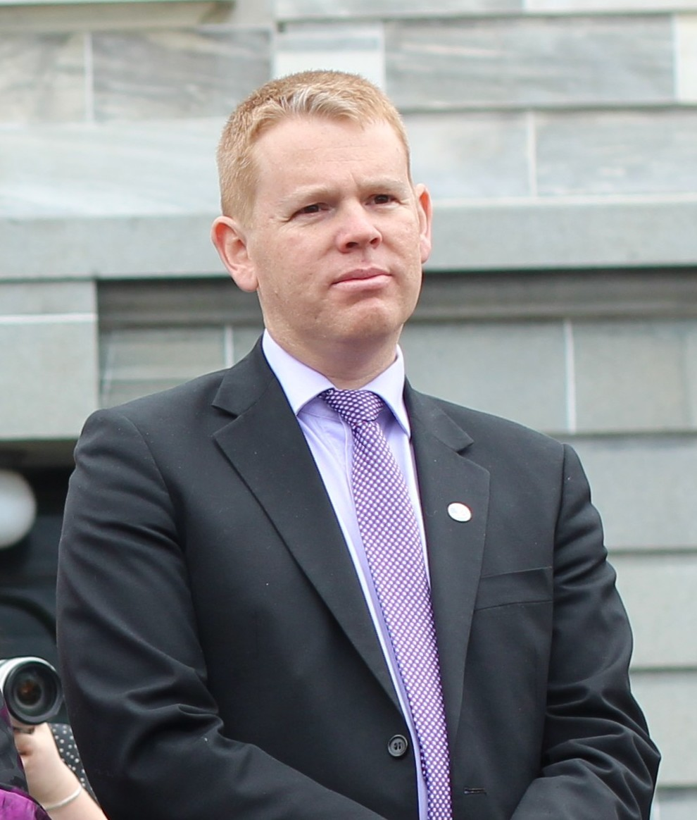 MPs at NZEI Te Riu Roa strike rally on the steps of the New Zealand Parliament 15th August 2018